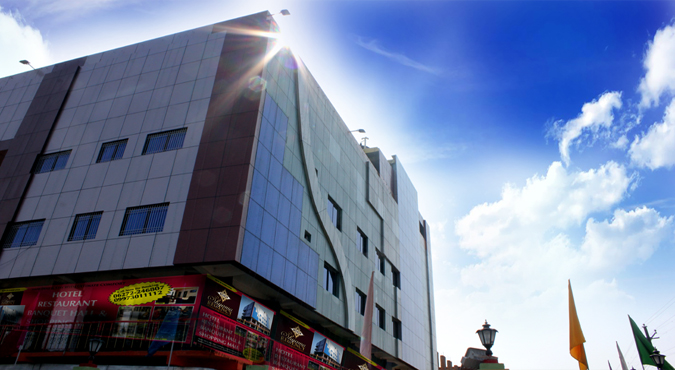 Shyama Mall is one of the biggest malls in Darbhanga, Bihar.